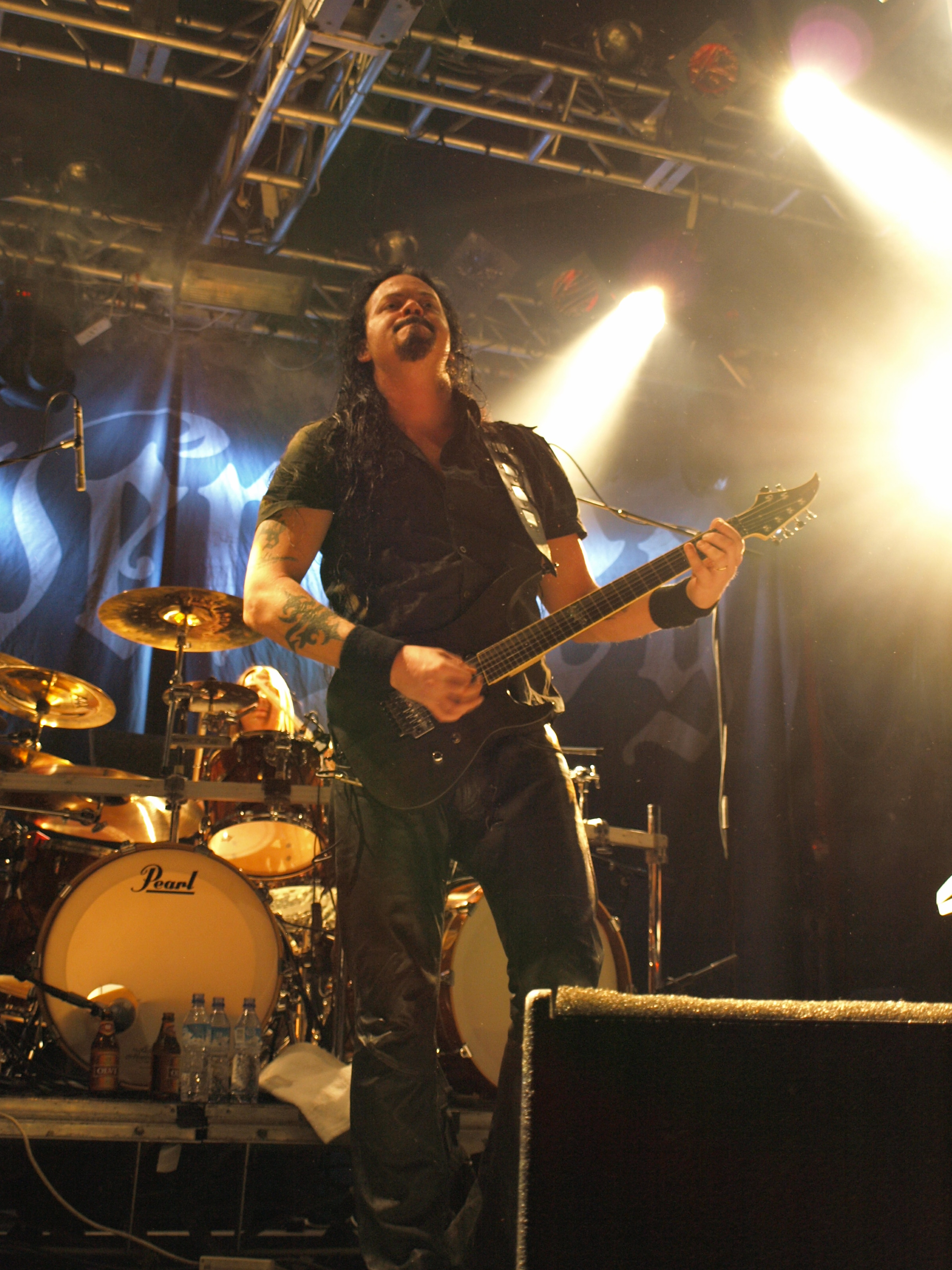 Swedish progressive metal band Evergrey live at Nosturi, Helsinki